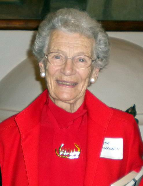 Nina von Dardel Lagergren, sister of WW2 hero Raoul Wallenberg, as released by image creator Southerly ClubsPlace: Nedre Manilla, Djurgården, Stockholm, Sweden